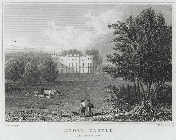 A view of Gnoll castle with cattle grazing on the grounds.Three figures and a dog are in the foreground.